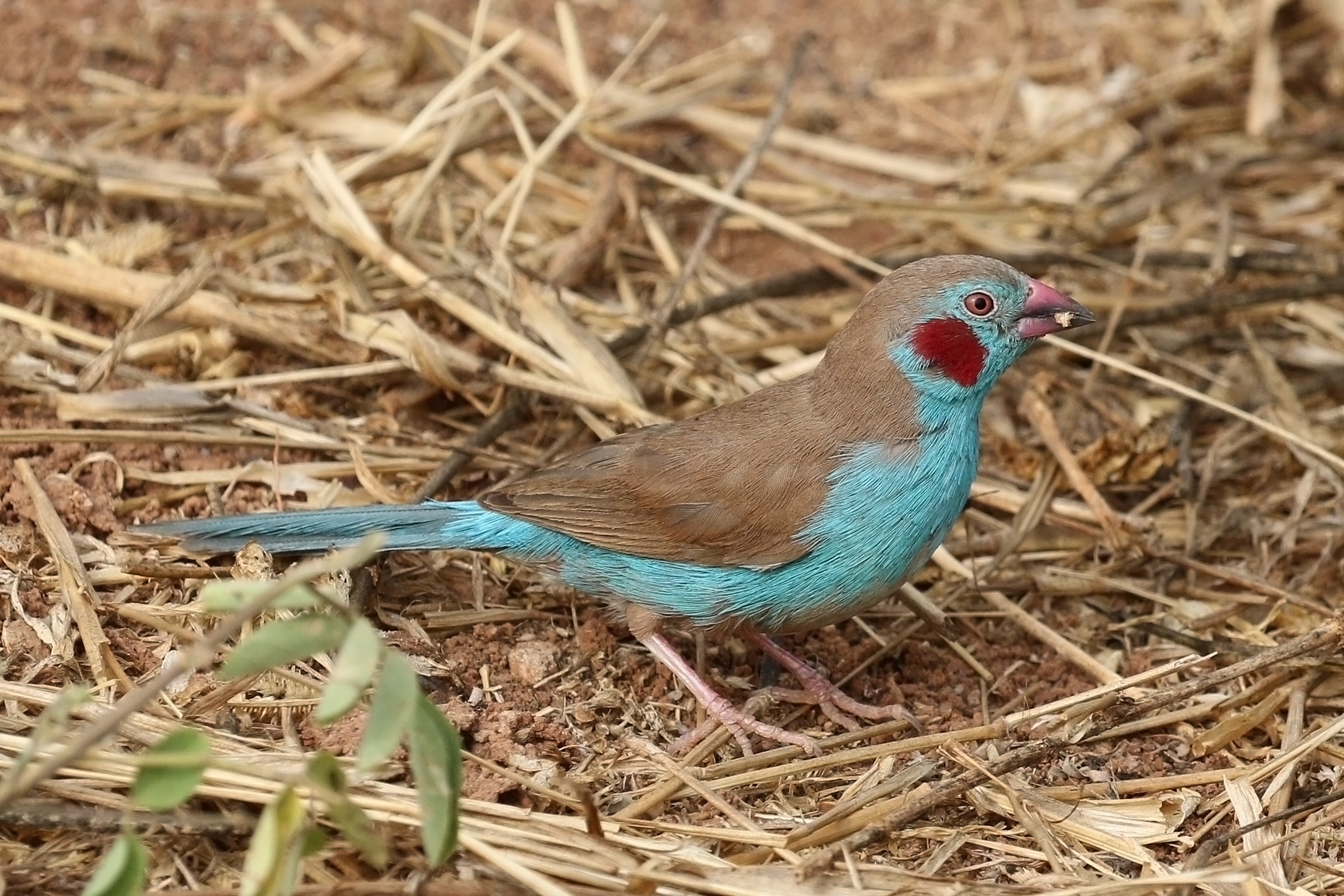 Red-cheeked cordon-bleu (Uraeginthus bengalus bengalus) male, The Gambia